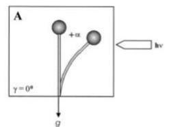 Figure4. Bending angle in vertical sporangiophore: the gravitropic stimulus increases in proportion to the increasing bending angle